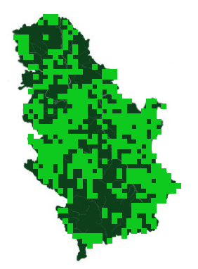 Ochlodes silvanus - map of distribution in Serbia